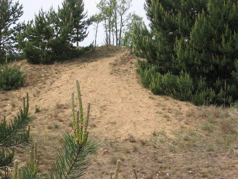 Galgenberg (gallows hill, 118 metres) in the landscape High Fläming nearby Lütte, a village (part) of the town Belzig in Brandenburg